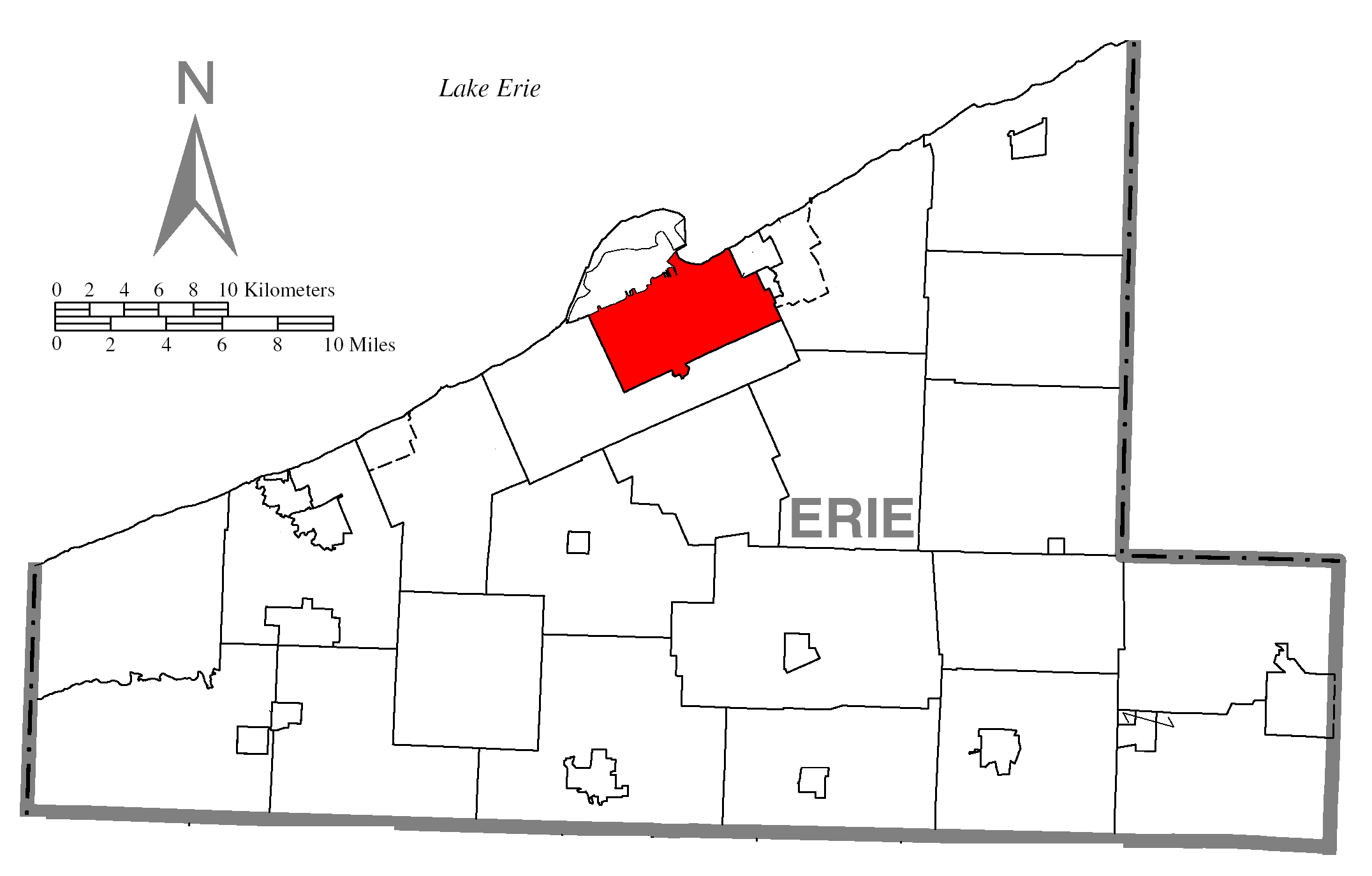 A map of Erie County showing Erie, Pennsylvania (alternate) highlighted on the map.